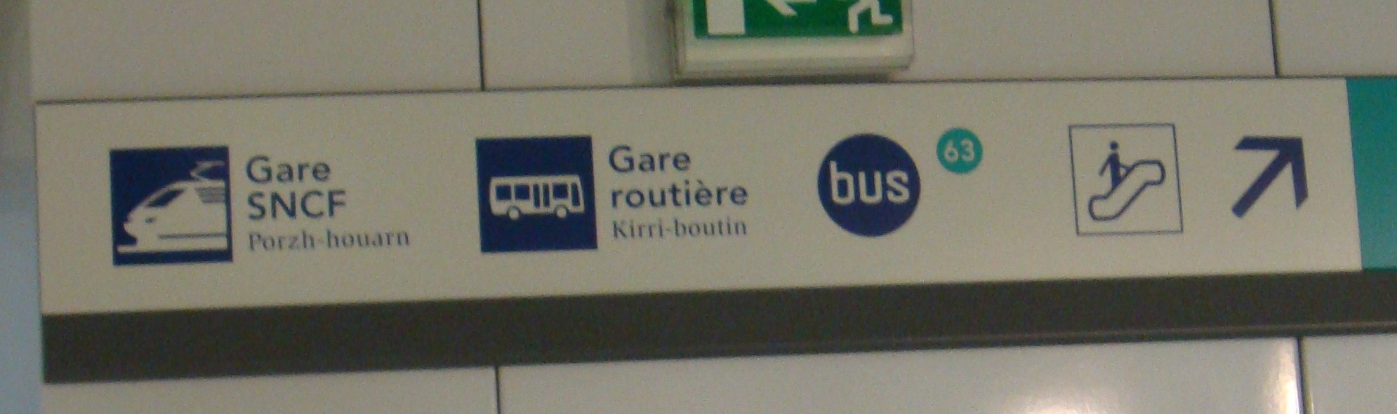 Rennes Metro; bilingual sign in French and Breton